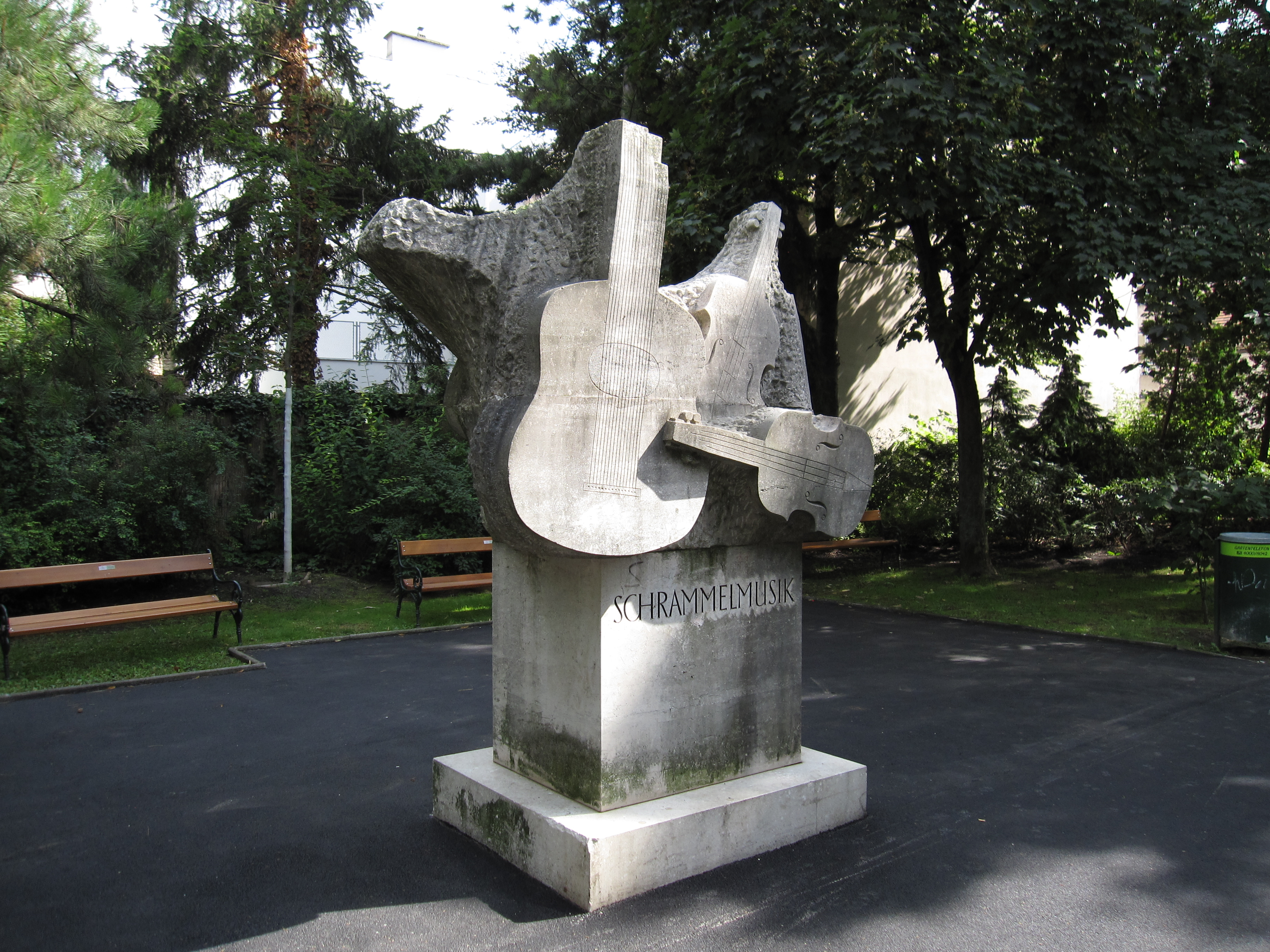 The monument to the musicians Schrammel was unveiled in November 1967, at Dornbacher Straße. The monument is by Eduard Robitschko, who was given the commission by the City of Vienna. (Freedom of panorama applies in Austria)